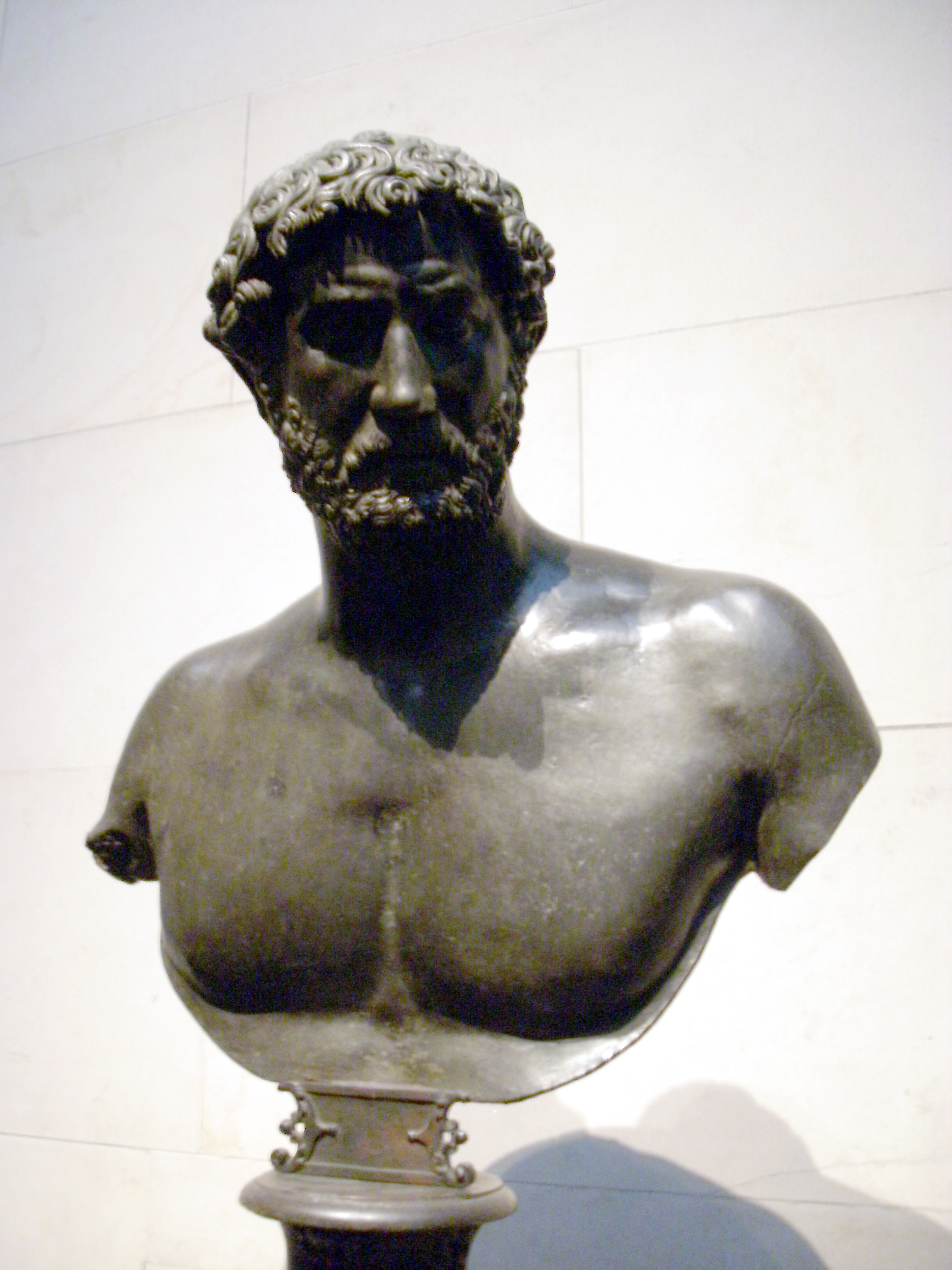 Lightened version of an image I took for Wikipedia